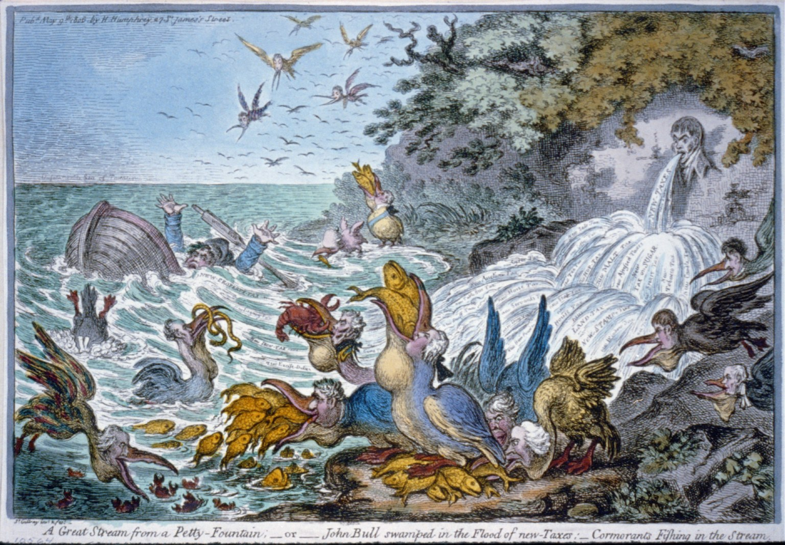 A great stream from a petty-fountain; or John Bull swamped in the flood of new - taxes; - cormorants fishing the stream CALL NUMBER: PC 1 - No. 10564 (A size) [P&P] SUMMARY: John Bull in boat sinking, losing an oar labelled with Pitt's name as cormorants including Lord Grenville and Charles James Fox stuffing themselves with fish. MEDIUM: 1 print : etching, hand-coloured. NOTES: Hand-coloured etching by James Gillray. British Cartoon Collection (Library of Congress). This record contains unverified, old data from caption card.